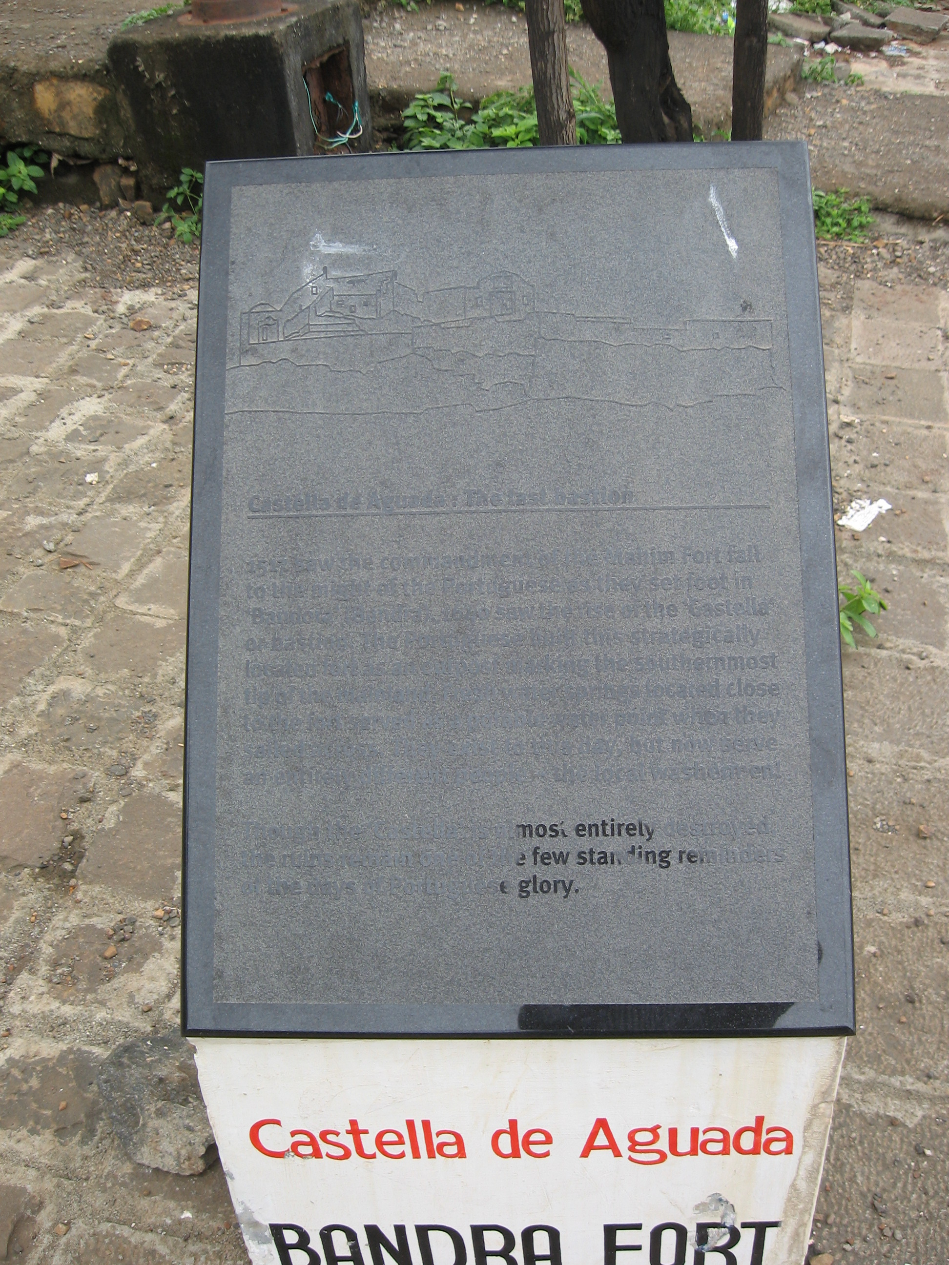 Plaque at the Castella de Aguada a Portuguese fort in Bandra, Mumbai